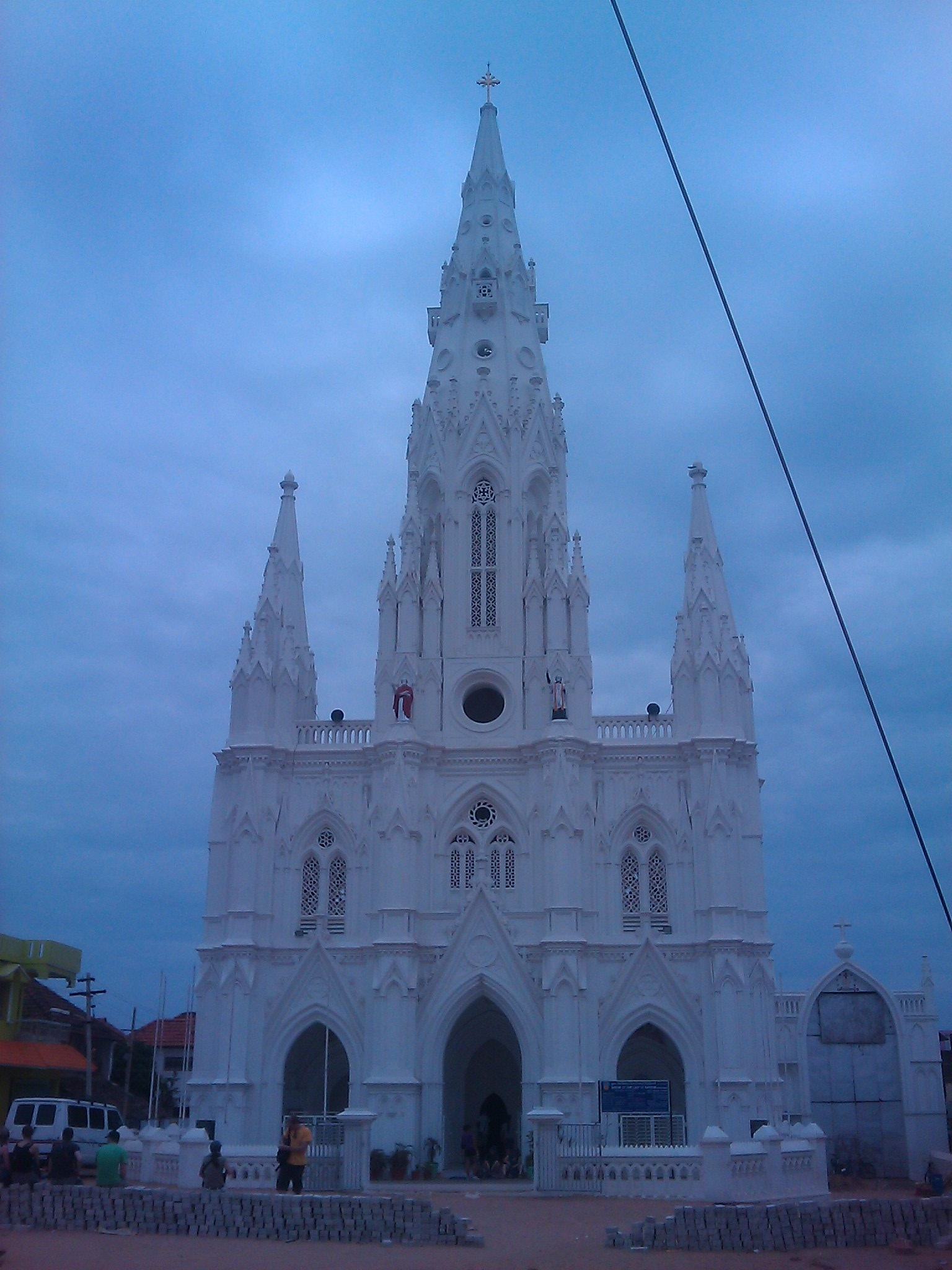 A front view of the church